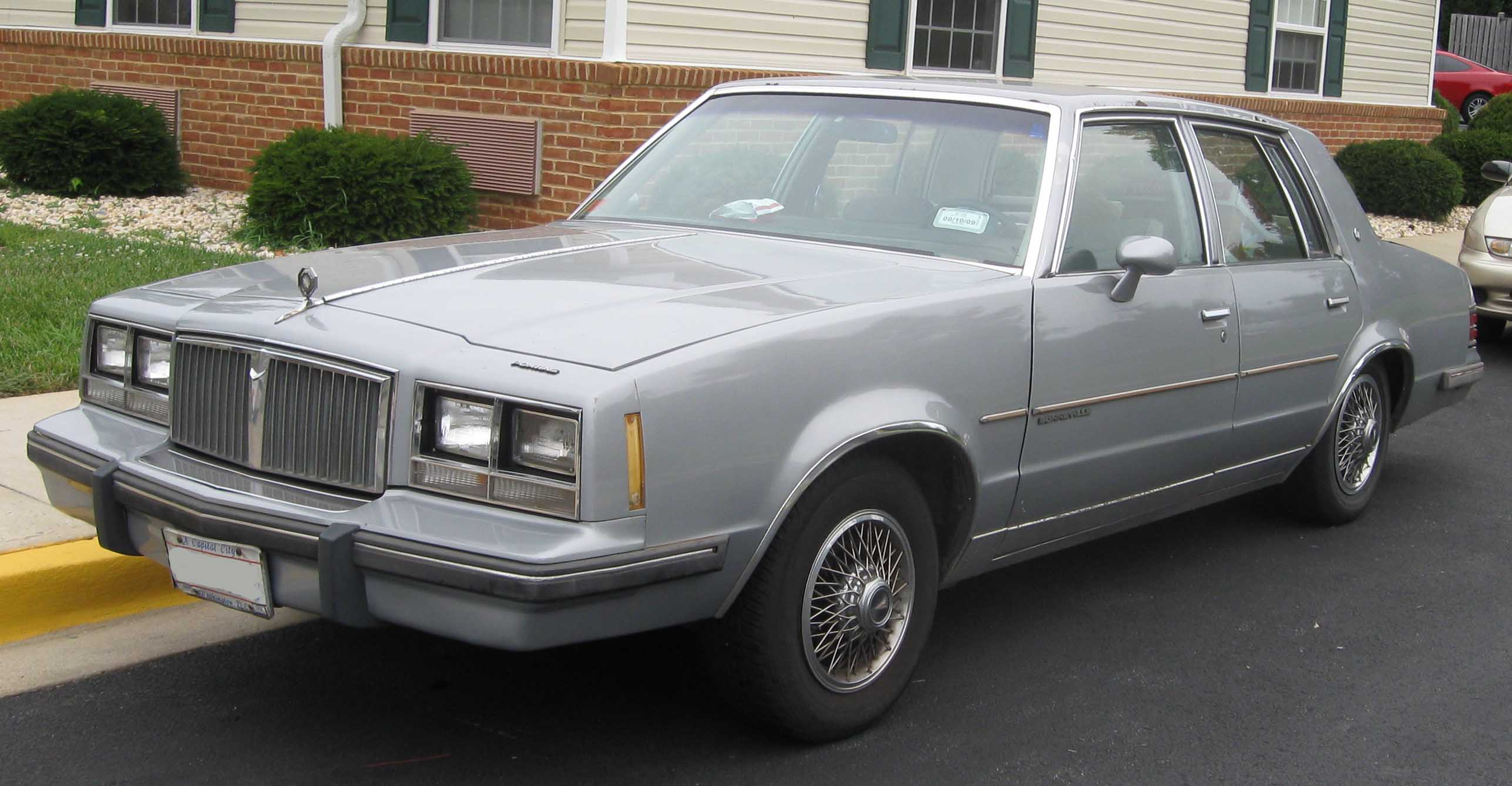 1982-1986 Pontiac Bonneville photographed in Kensington, Maryland, USA.